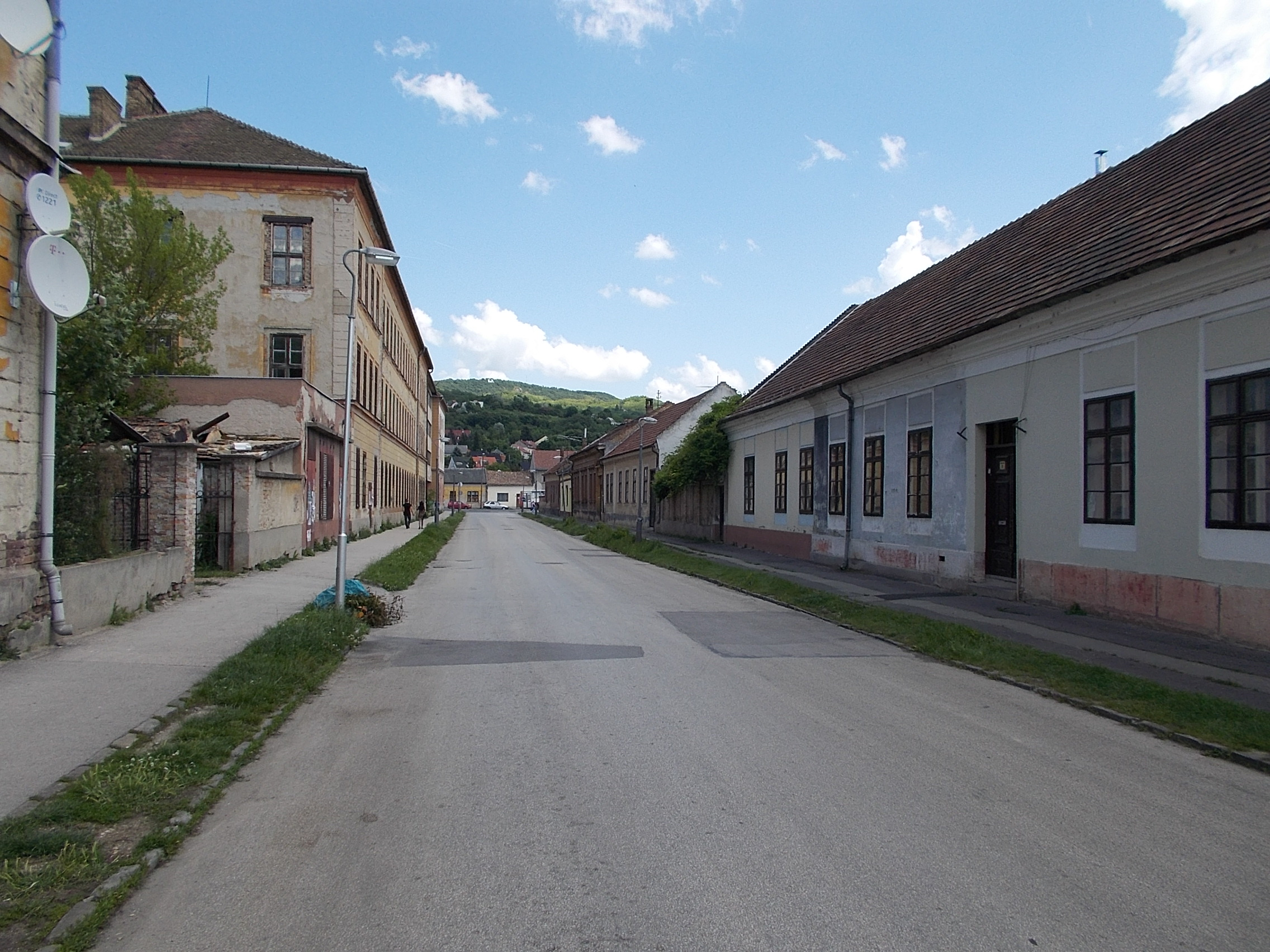 On left the former Granvisus eyeglass frames factory on right are residential buildings, the no.3 and 5 are listed houses. - Sissay lane, Esztergom, Komárom-Esztergom County, Hungary.